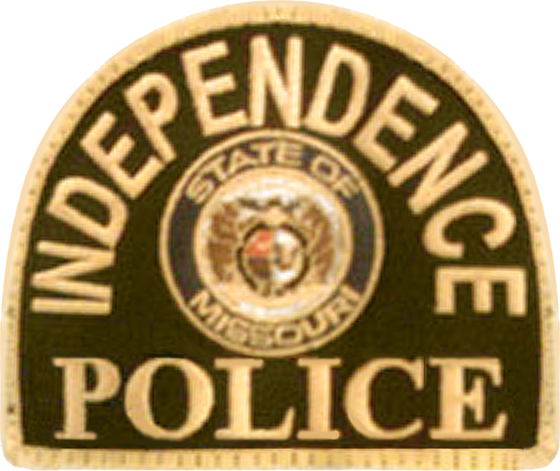 Image of the Independence, Missouri Police Department patch. Made with Photoshop.